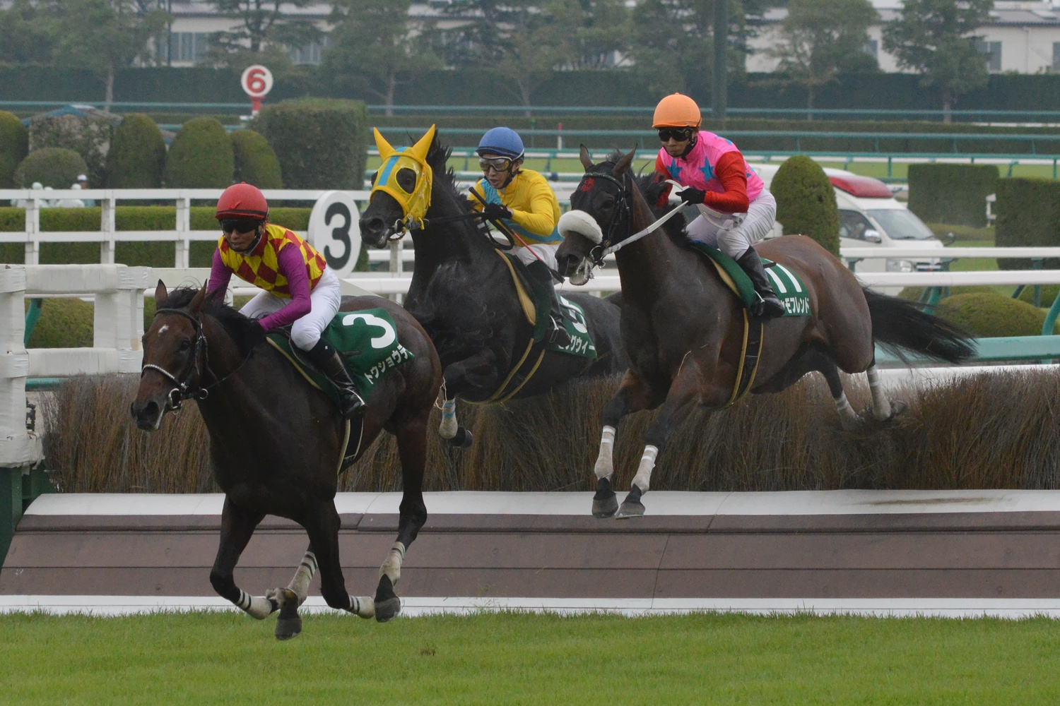 Japanese race horse Big Week at Hanshin racecourse.